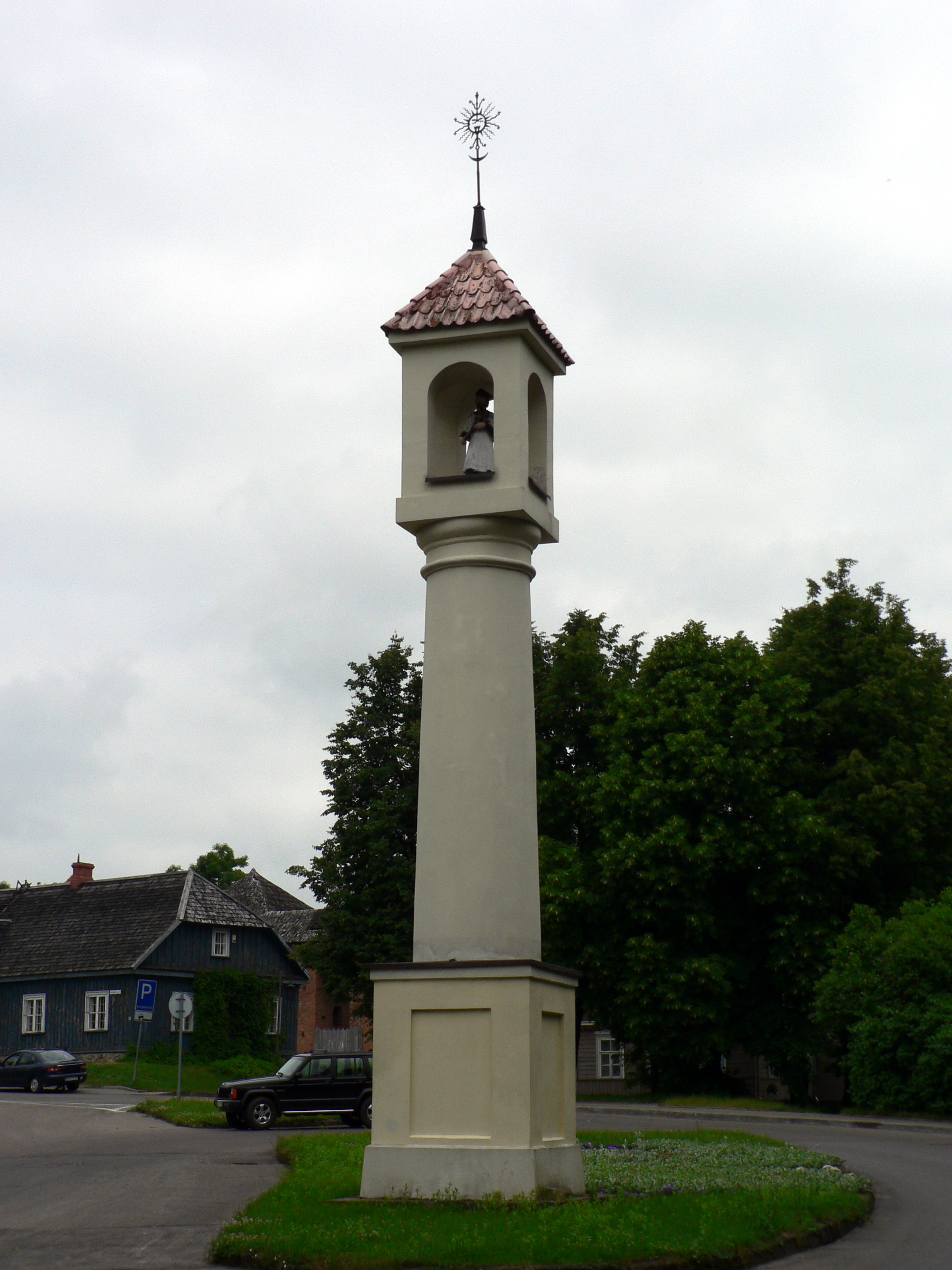 Figure of John of Nepomuk in Trakai, Lithuania. A copy of wooden sculpture by Stanislaw Horno-Poplawski from 1935.